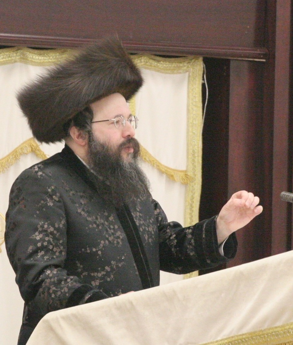 Mordechai Dovid Unger - Rebbe of Bobov